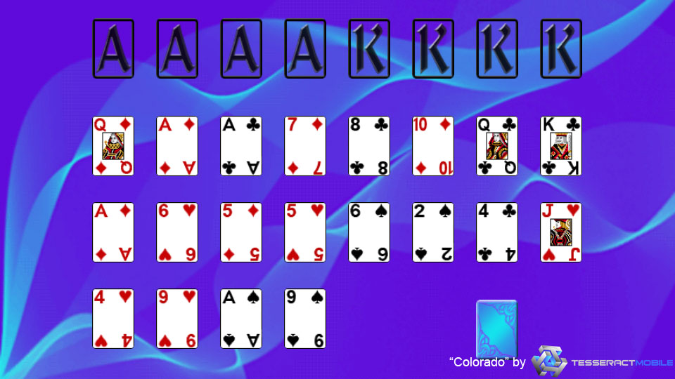 This image is a screenshot of the solitaire game "Colorado". More information about this game or this photo can be found on this website